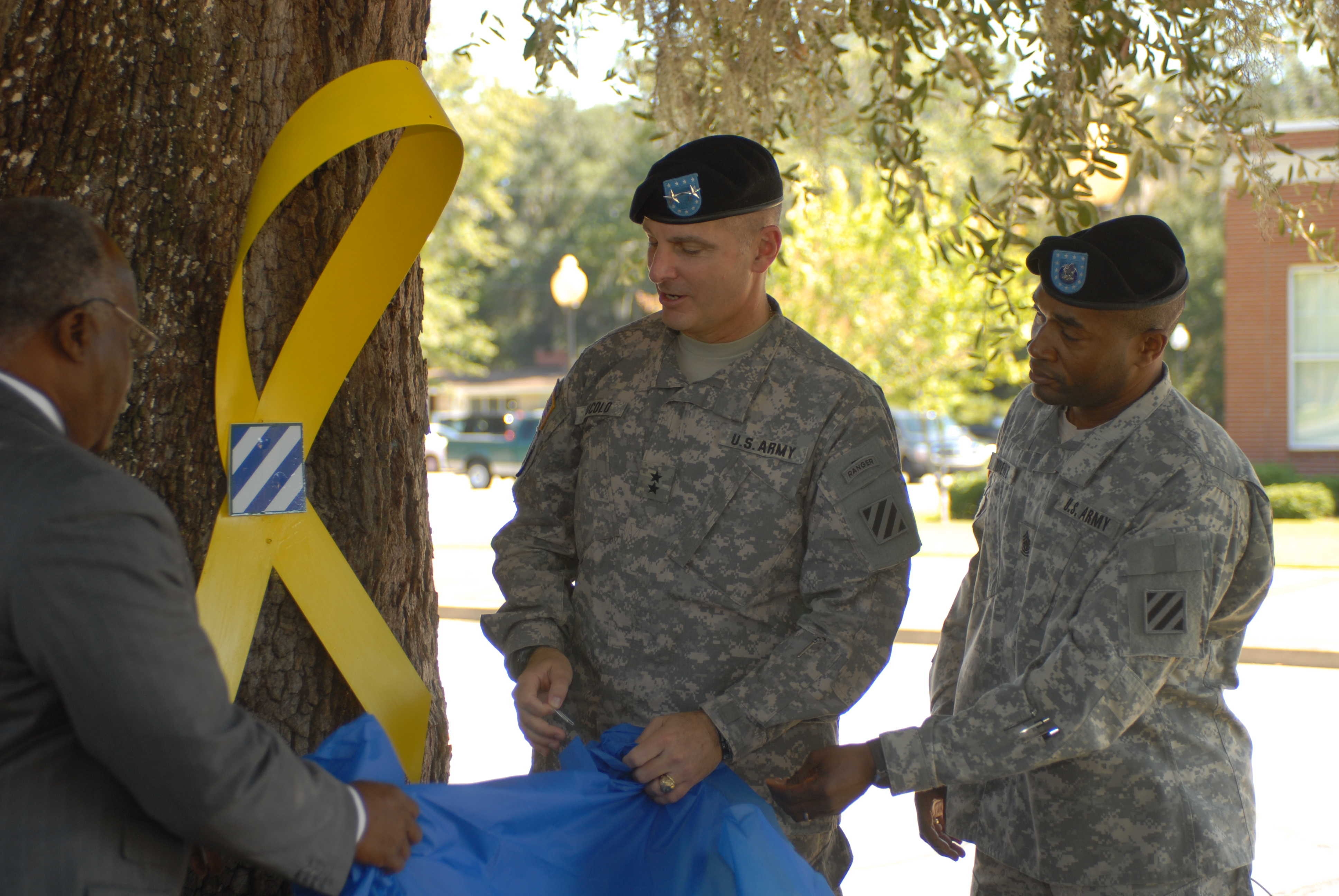 Major General Tony Cucolo, commanding general of the 3rd Infantry Division, Command Sgt. Maj. Jesse Andrews, command sergeant major of the 3rd ID, and Hinesville Mayor James Thomas unveil the yellow ribbon at a rededication ceremony to commemorate the 3rd Infantry Division's fourth deployment since Sept 11, 2001, at Victory Park in Hinesville, Oct. 1.